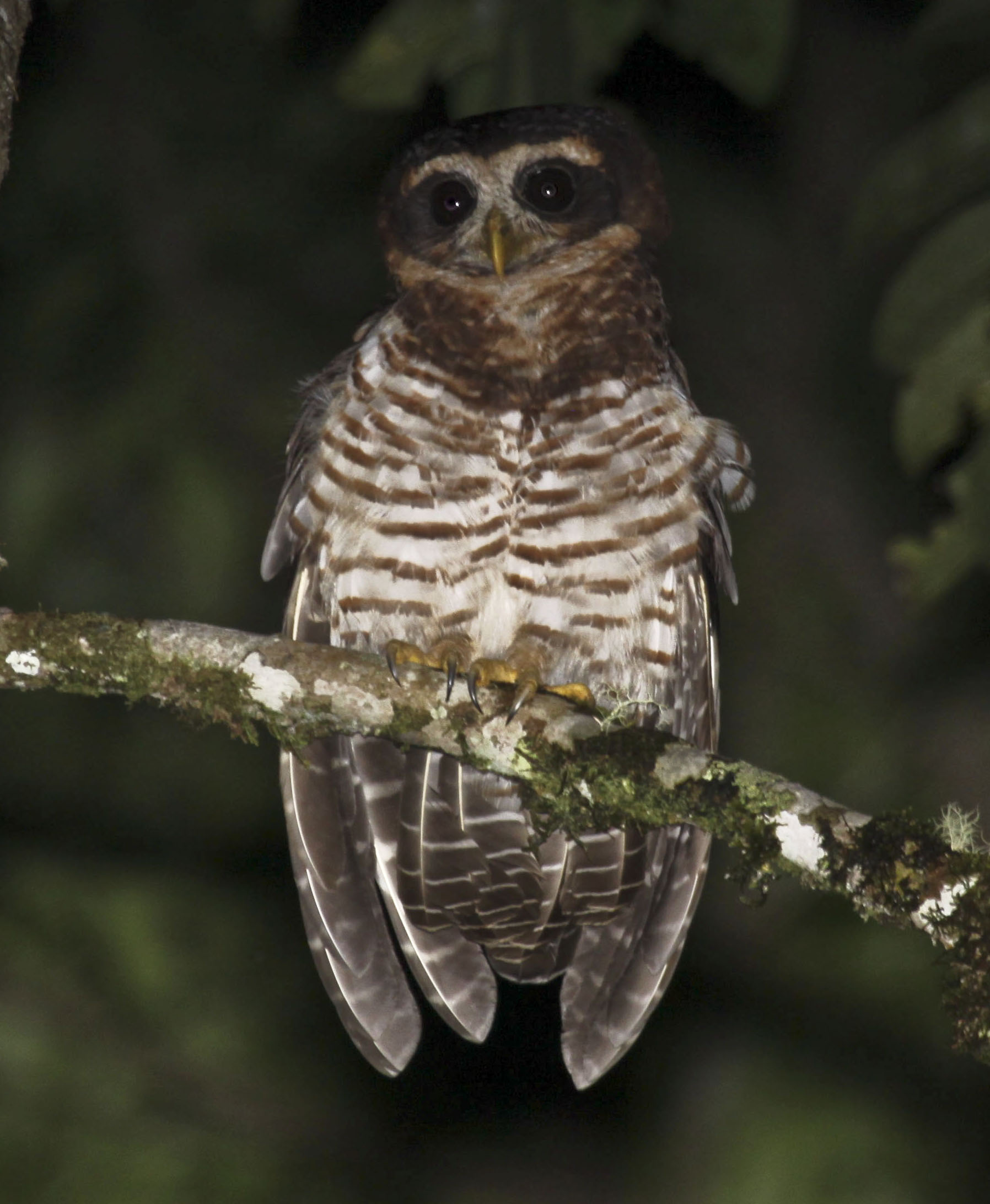 Pulsatrix melanota, Wildsumaco Lodge, Ecuador